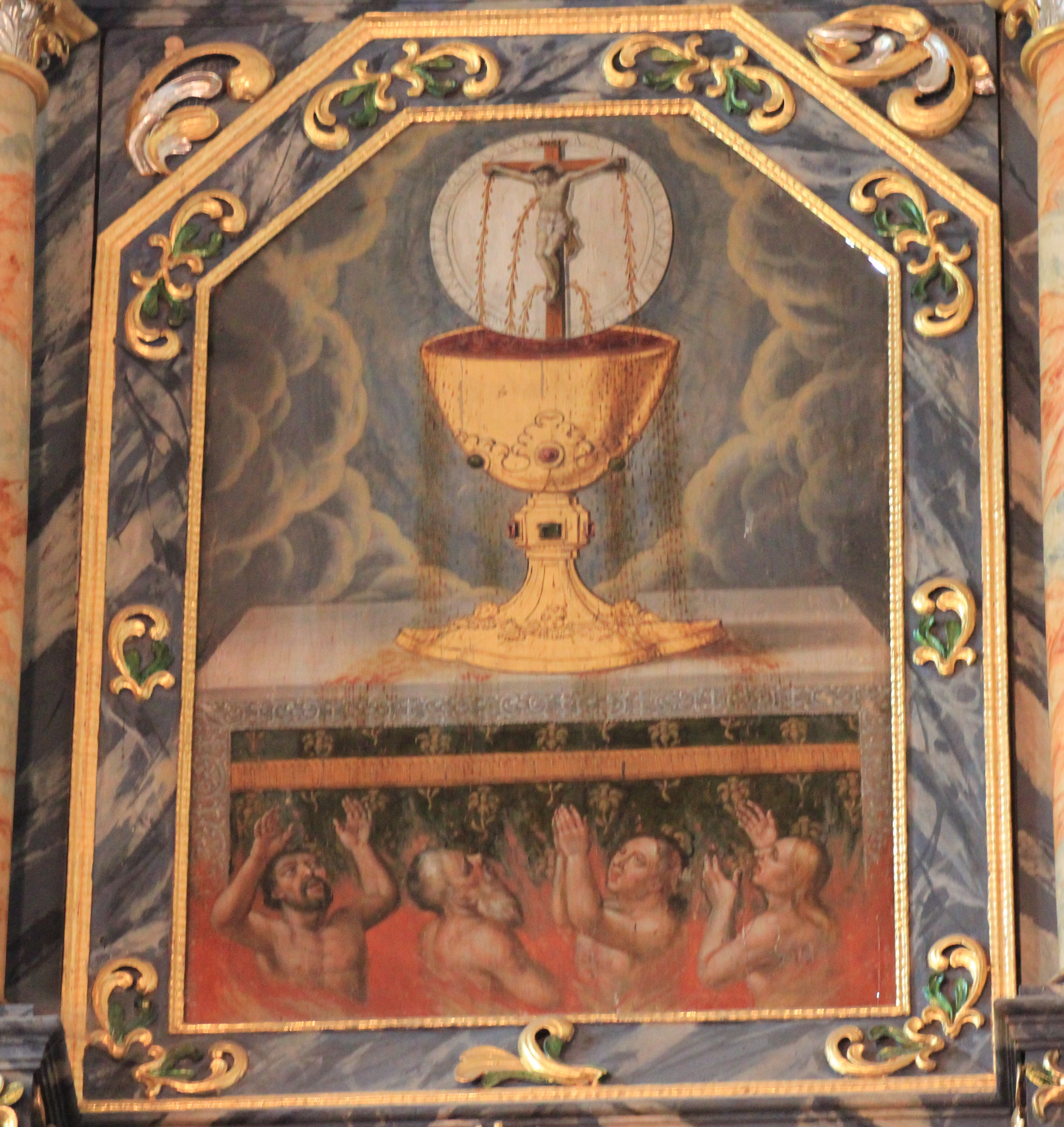 Heiligblutkirche in Friesach - Altar - Top-painting